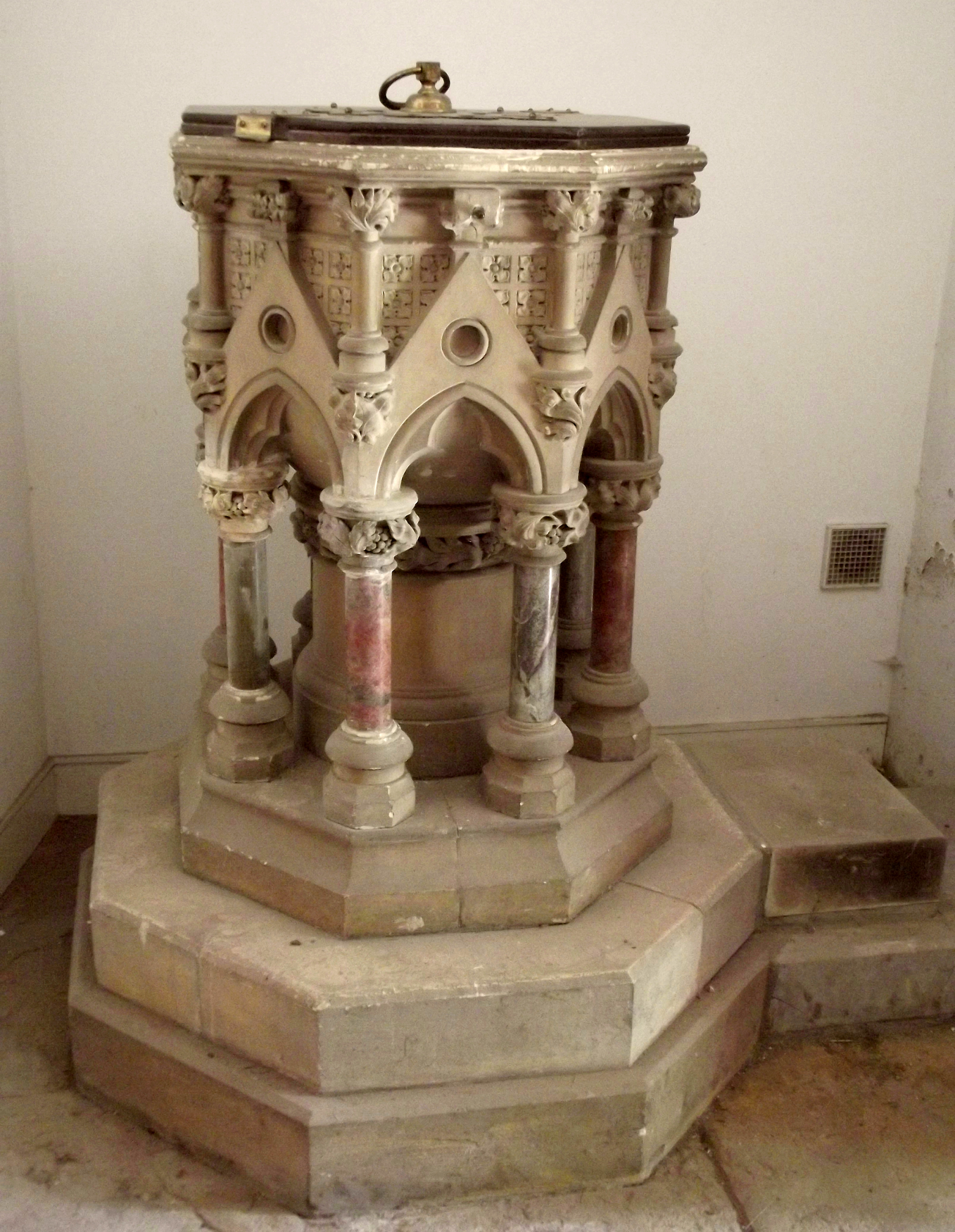 Interior of the former church of St Mark, Low Moor, Bradford, West Yorkshire, England, which was designed by Mallinson and Healey, and completed in 1857. Showing caen stone font, in situ, carved by Catherine Mawer. Note: there is no public access to the interior of this building.